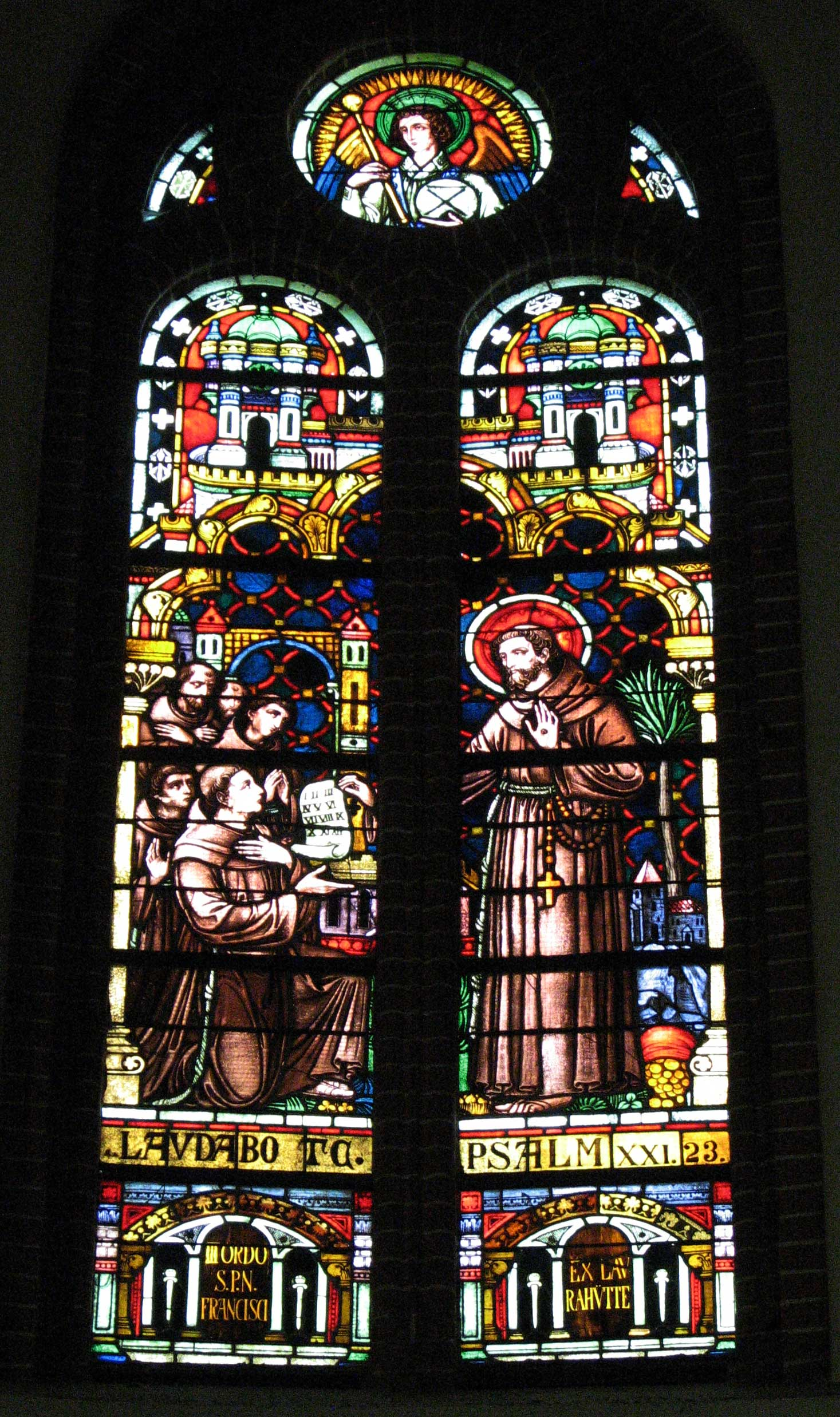 Stained glass window in the transept of the Basilica of St. Louis King in Katowice Poland, XX century - Saint Francis of Assisi